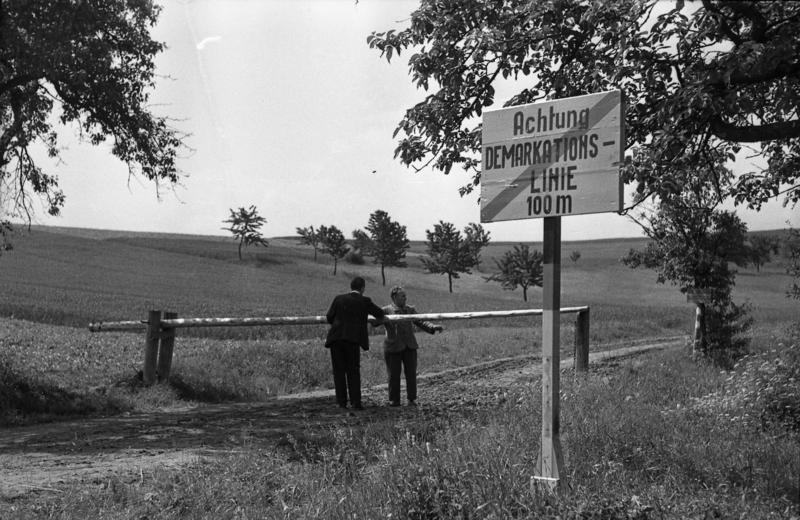 Border control point between the GDR and West Germany at Asbach (Thuringia) / Bavaria. Around 1950.